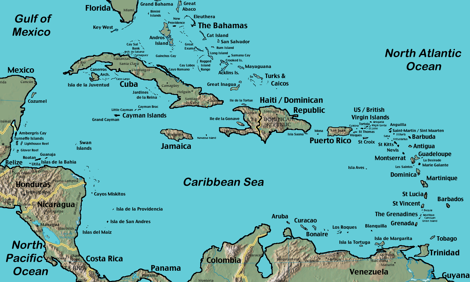 Self modified from